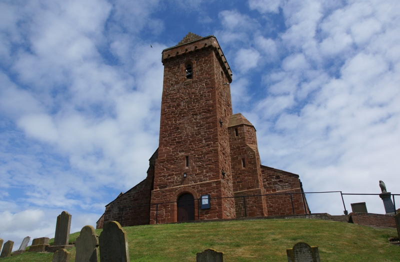 St Vigeans Church, St Vigeans, Angus, Scotland.